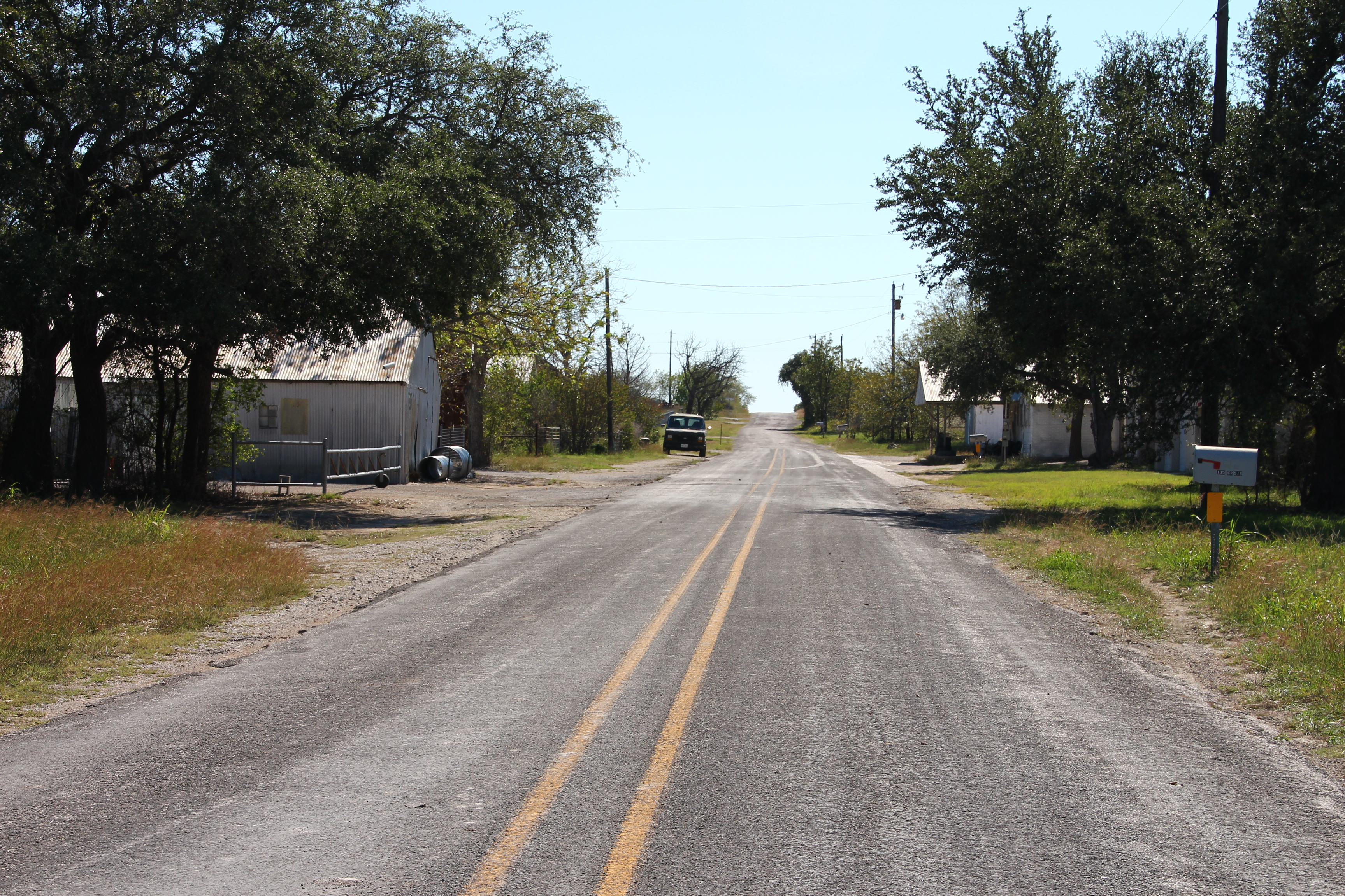 Downtown Shive, Texas.